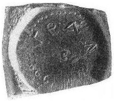 Izyaslav (Russian: Изяслав, Belarusian: Ізяслаў) was the son of Vladimir I of Kiev and Rogneda of Polotsk.